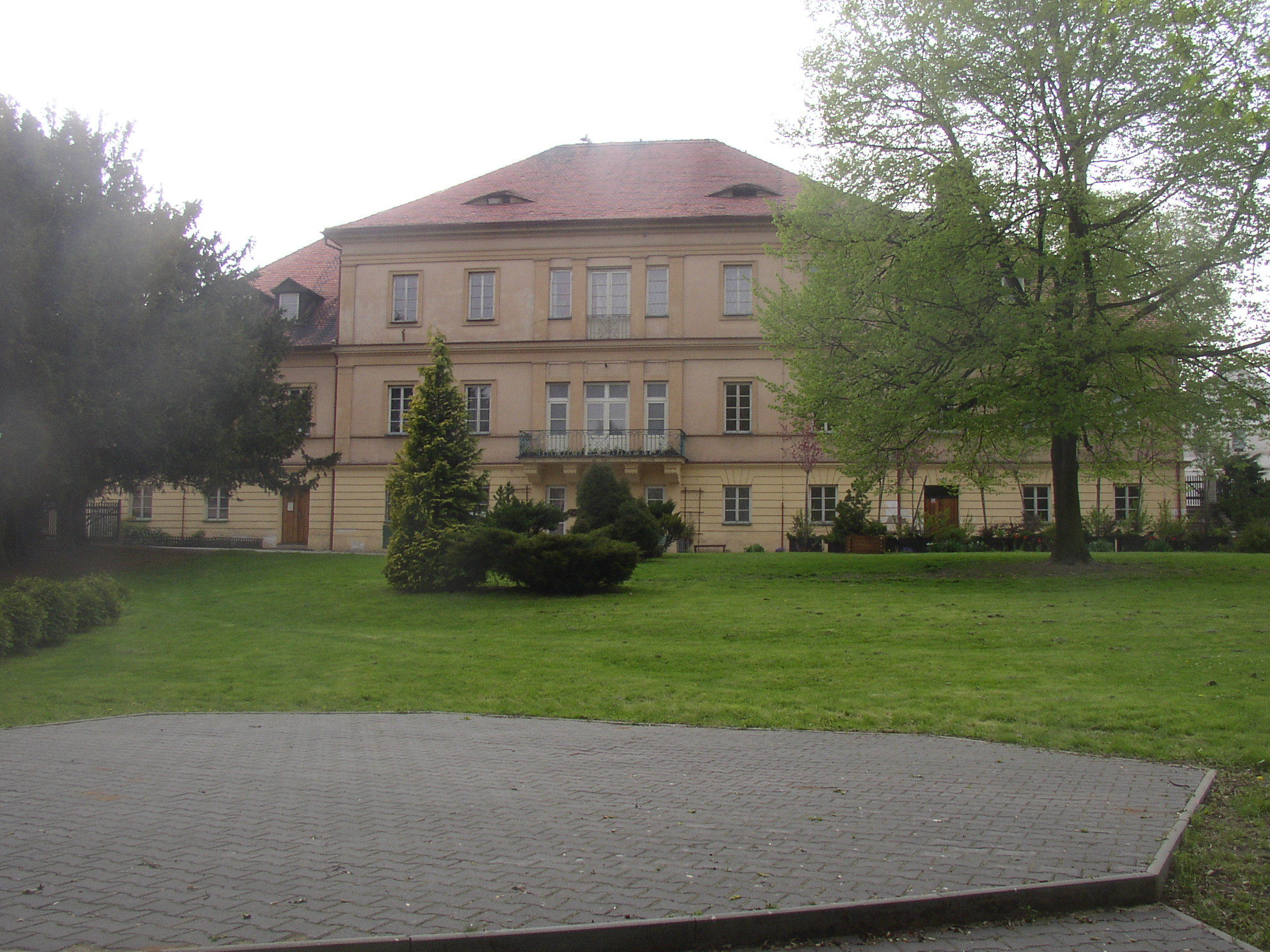 Manor house (nowadays a school) in Třebívlice, Czech Republic. The eastern front facing the garden.